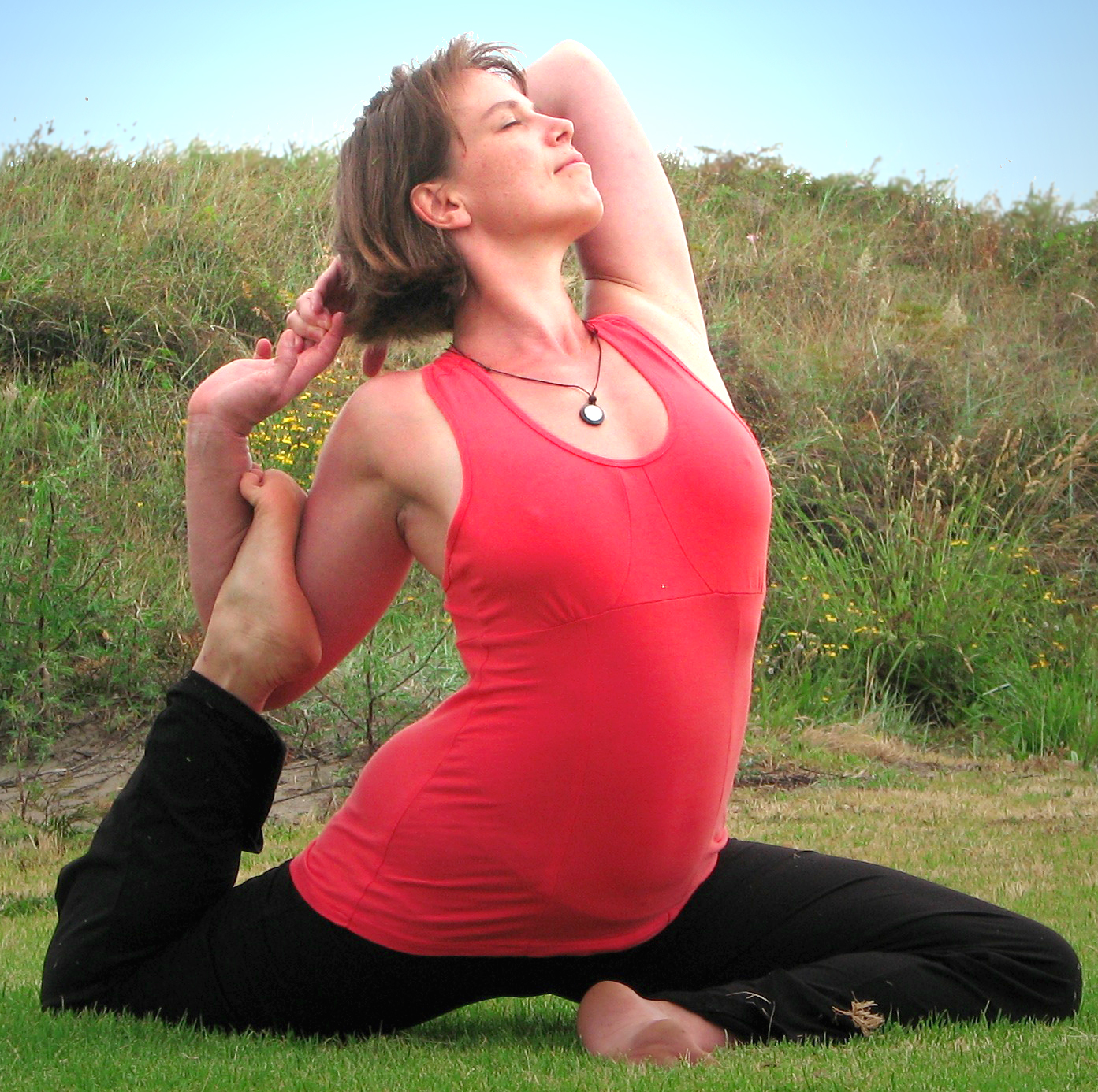 Yoga King Pigeon Posture Rajakapotasana